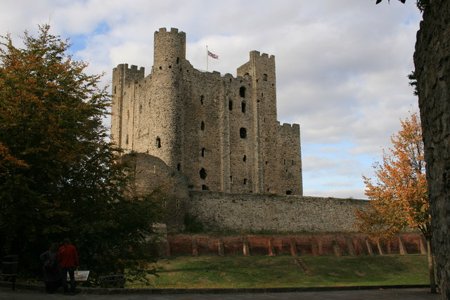 Rochester Castle, Kent, near to Rochester, Medway, Great Britain. Looking North by North-West from the corner of Boley Hill and St Margaret's St